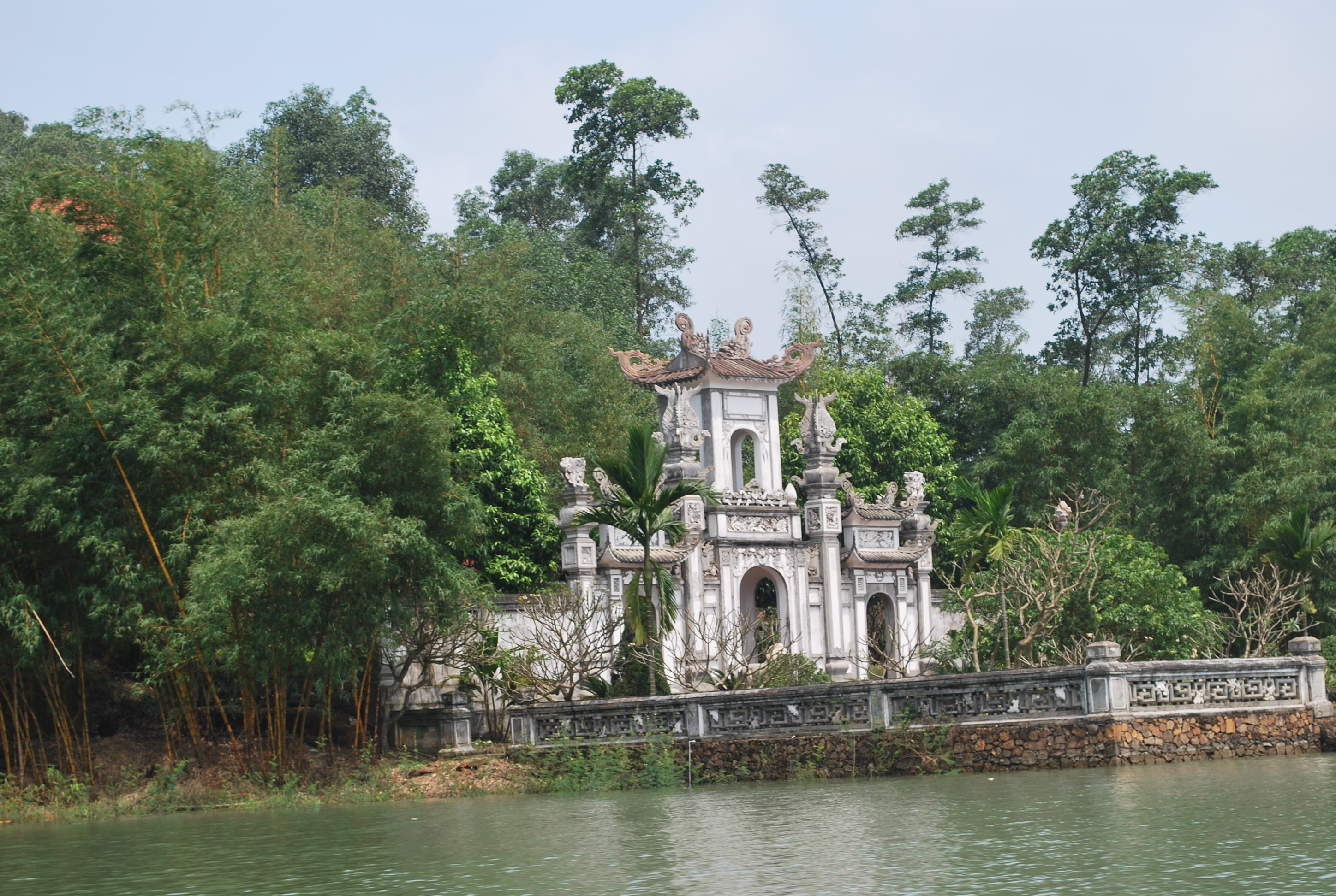 Nui Coc Lake, Vietnam